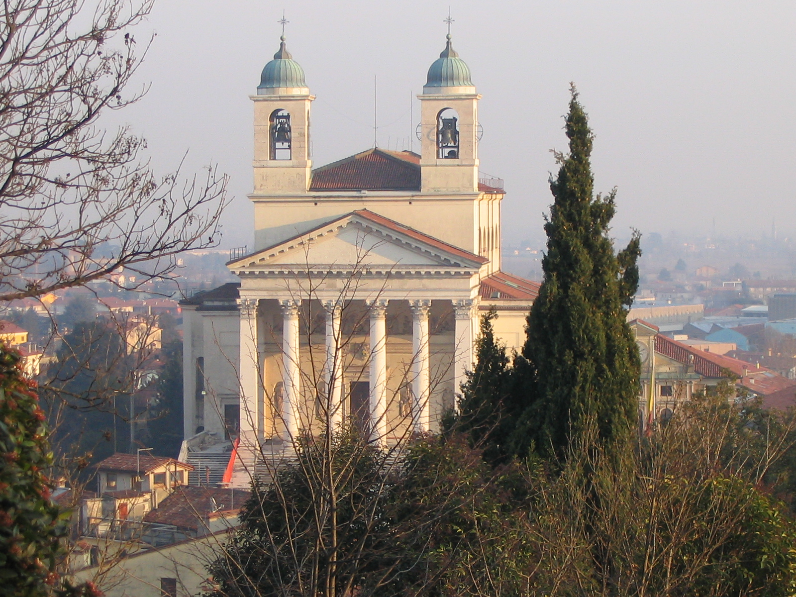 Photo By wanblee